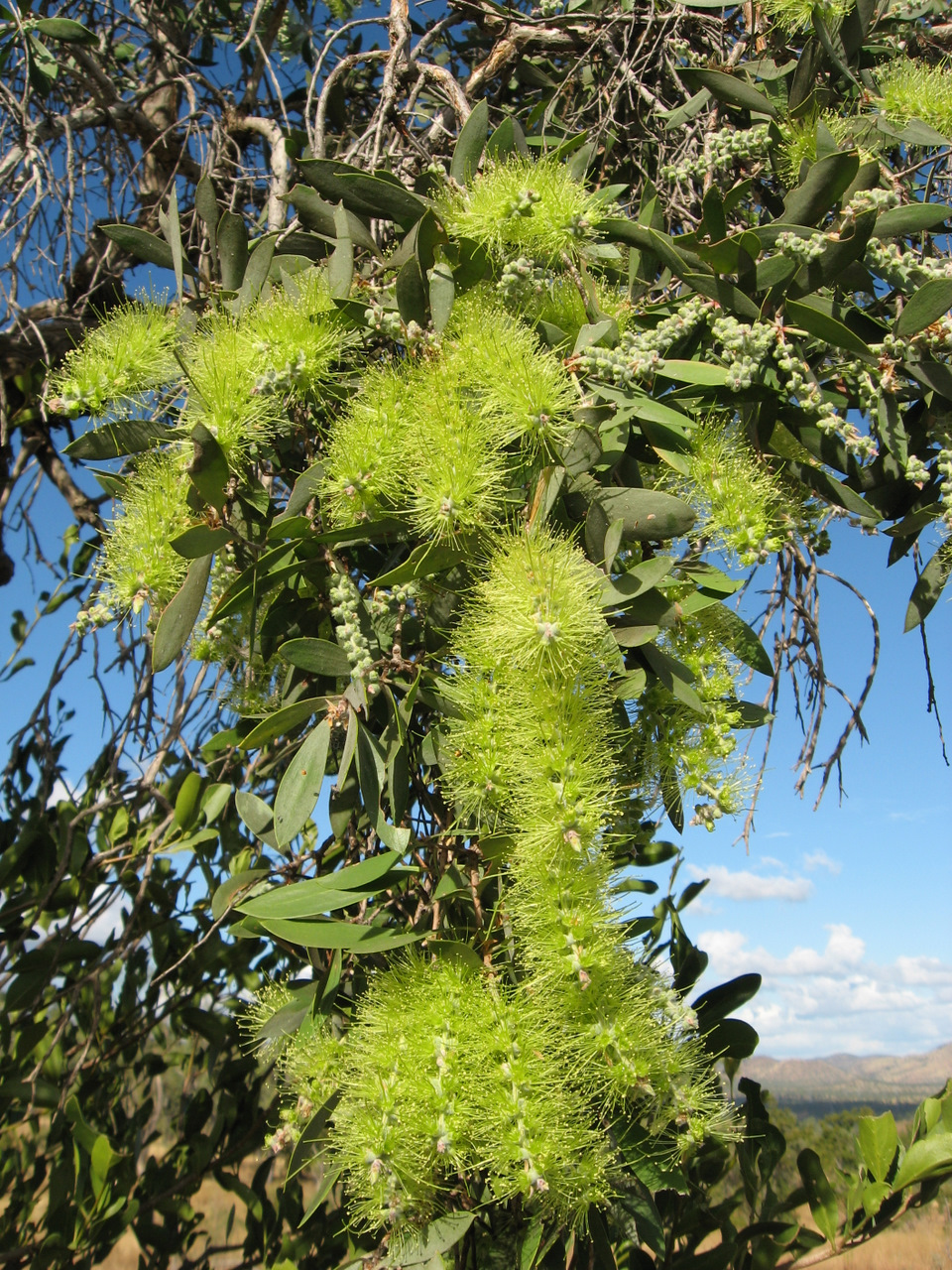 Melaleuca nervosa (Mt Devlin, Collinsville Taken by Garry Reed of Pelican Ck.)